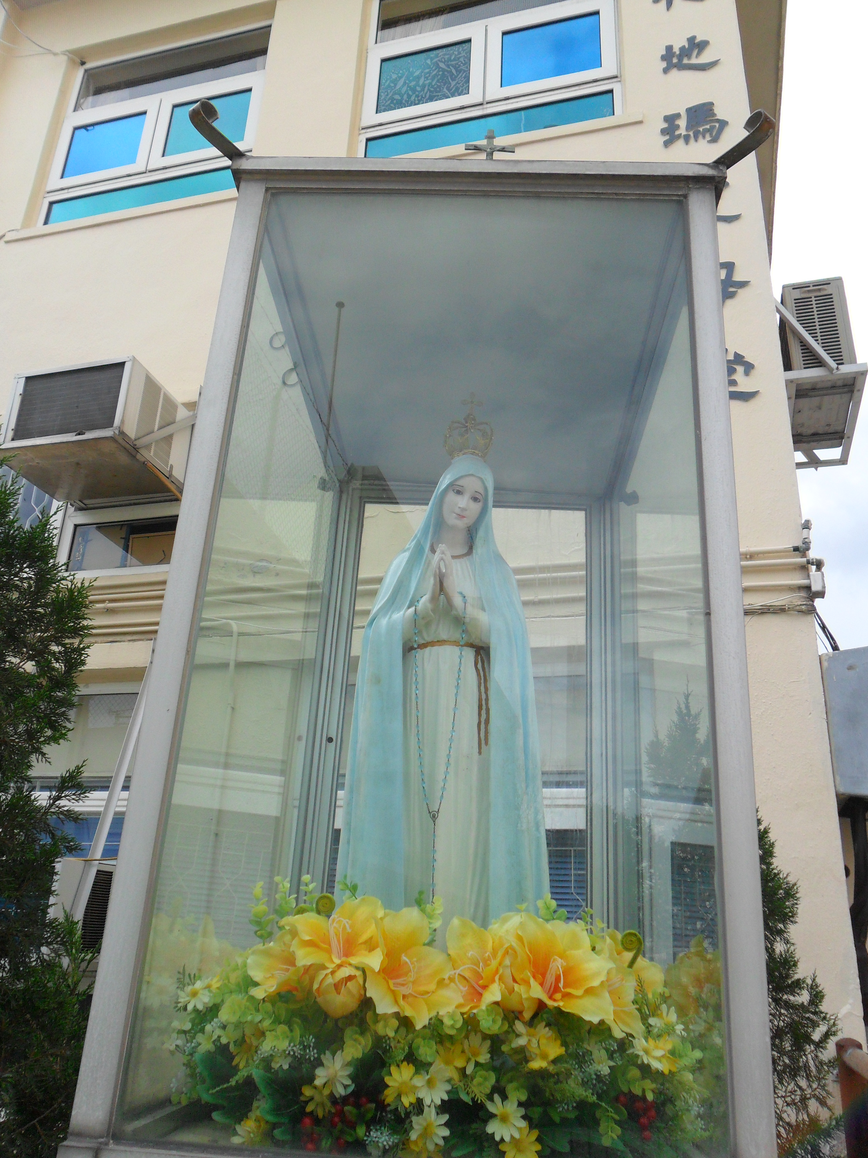 Our Lady of Fatima Church, Hong Kong